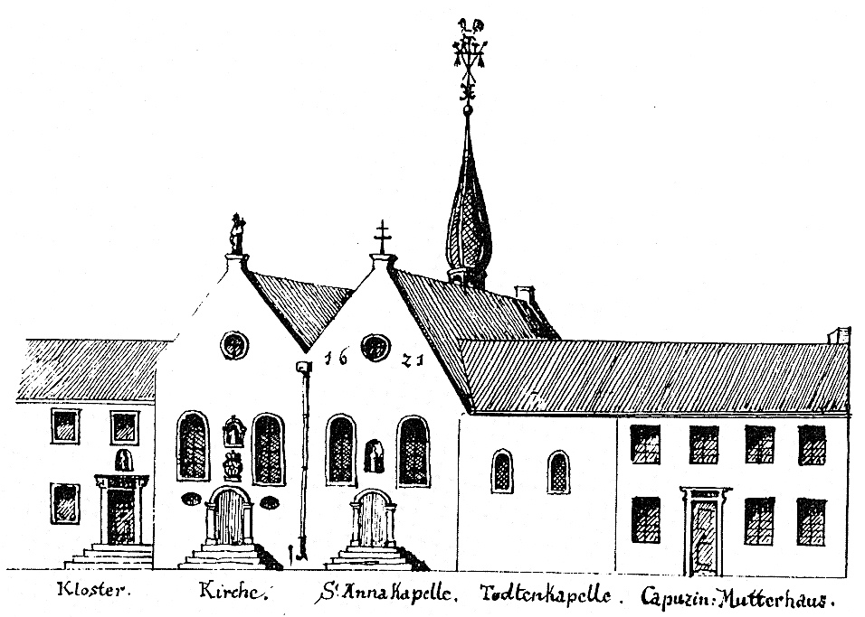 t